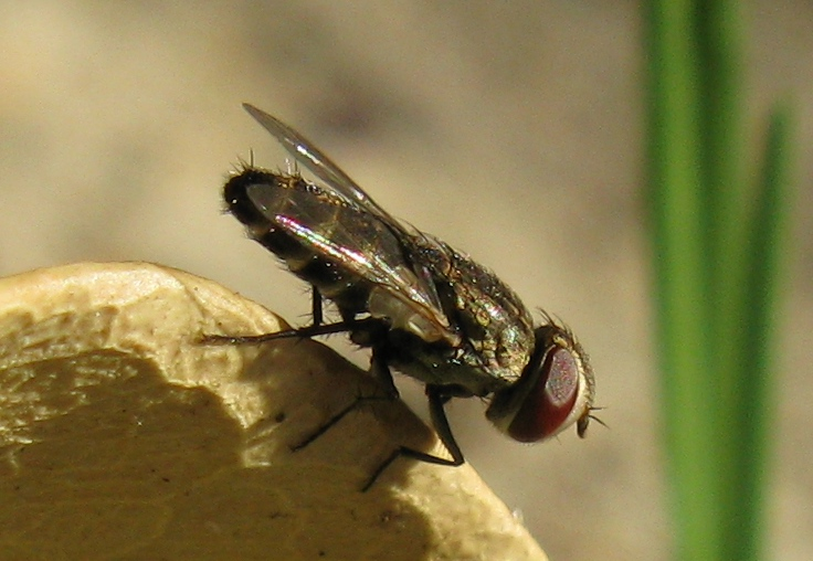 Craticulina is a genus of flies in the family Sarcophagidae, but with unusual habits for sarcophagids: they lay their larvae on the prey of certain hunting wasps, usually fly-hunters. This species parasitises a South African bee-pirate (Philanthus diadema?). The fly is much smaller than the wasp, about 5mm long. This specimen was waiting on a dead leaf of a Syzygium outside a Philanthus tunnel. Not long after the photograph she went after a returning wasp.